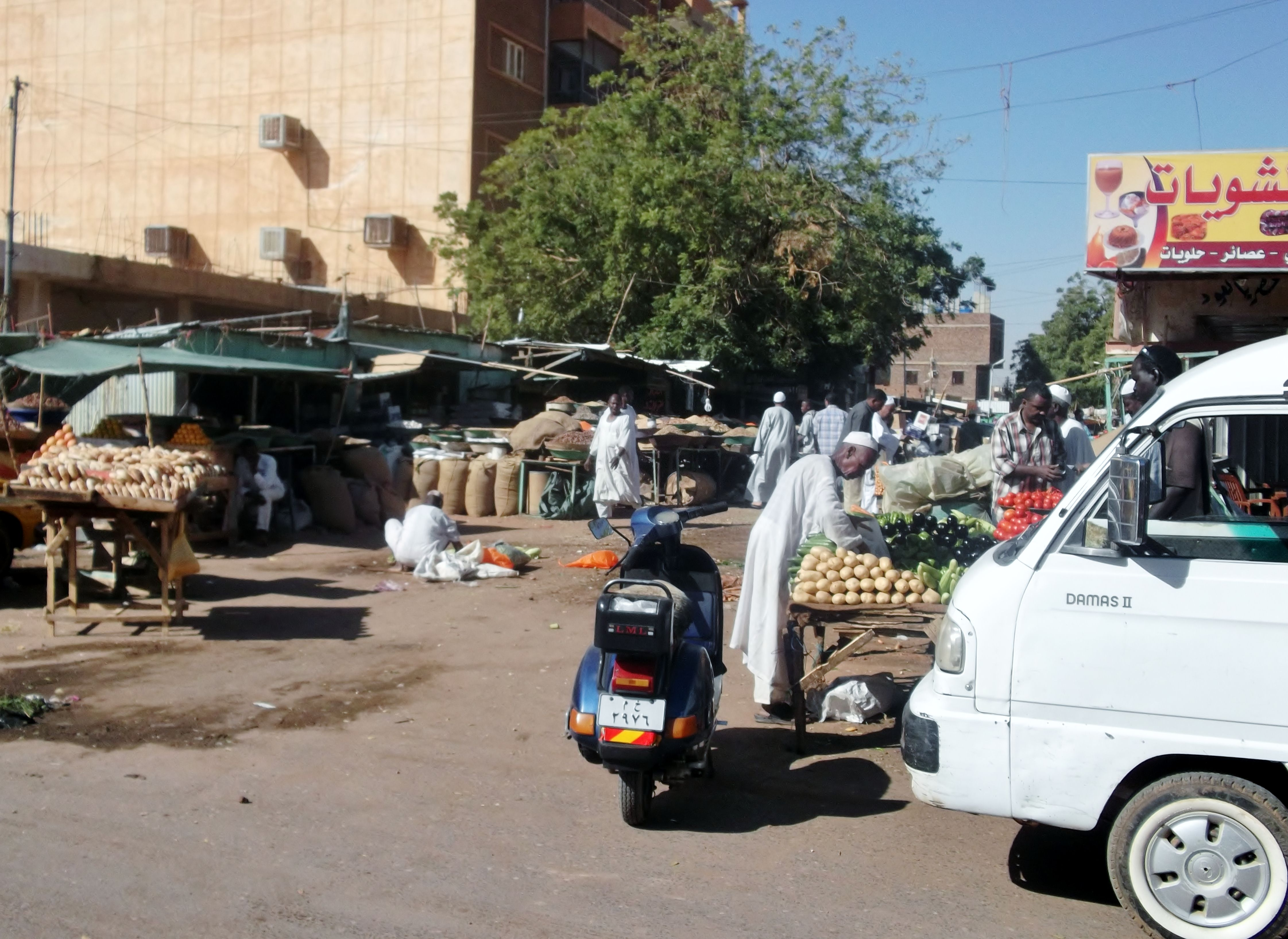 سوق الخضار – الخرطوم بحري